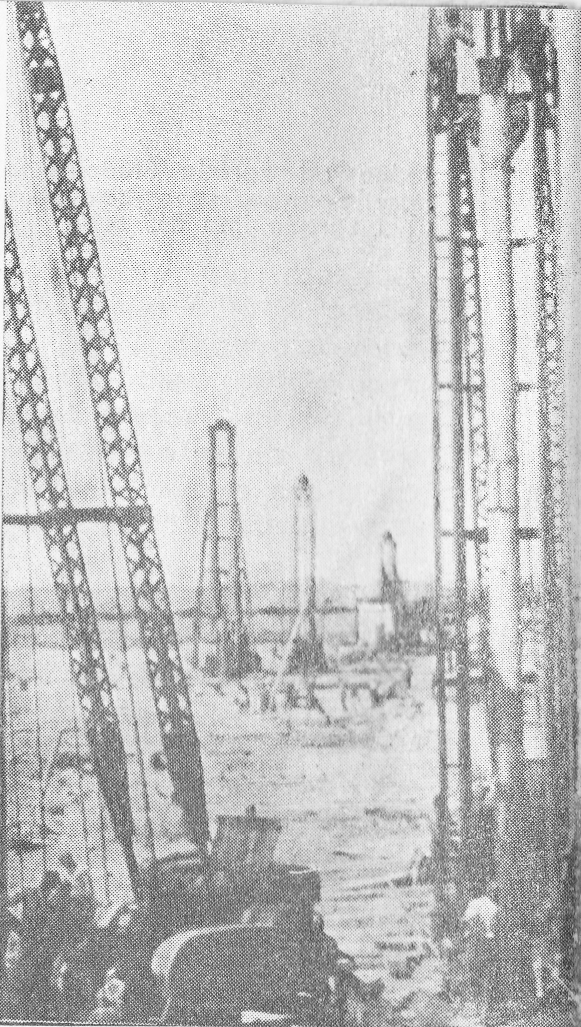 Construction machines for swamp building in New Belgrade (1948-1950)